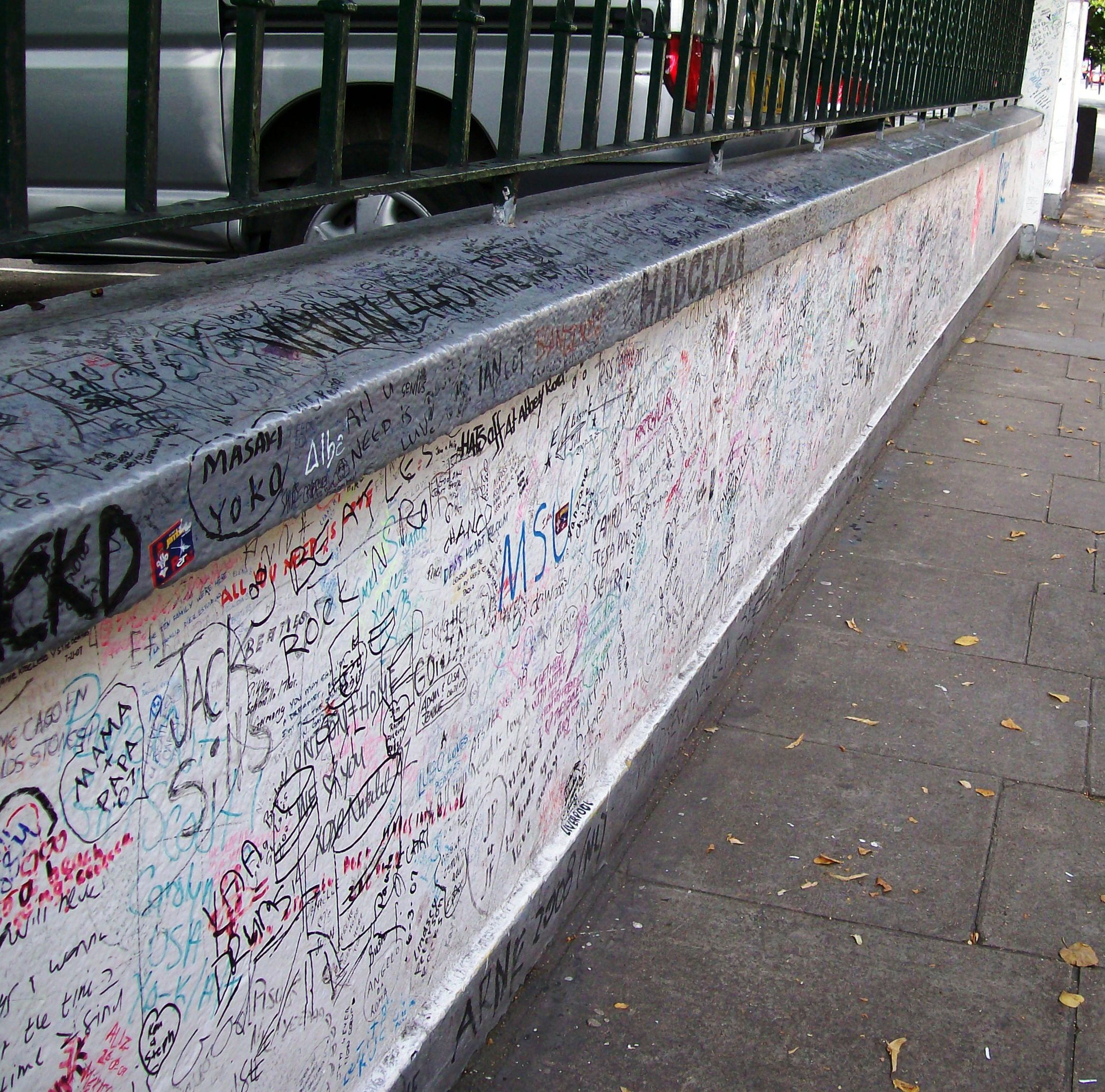 The graffiti covered wall outside Abbey Road Studios, London.